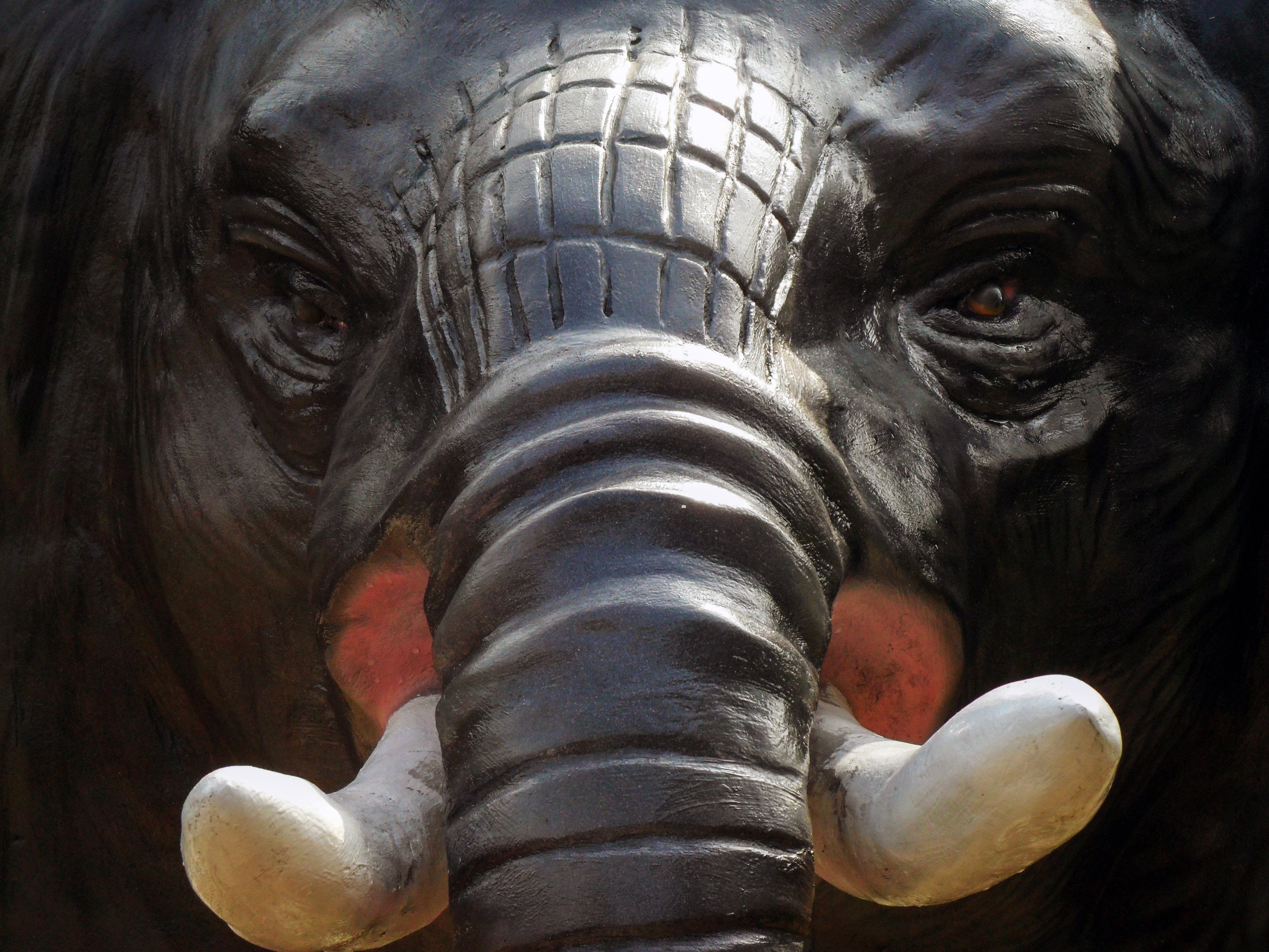 Elephant statue (face), Butterfly Park Bangladesh, Chittagong.